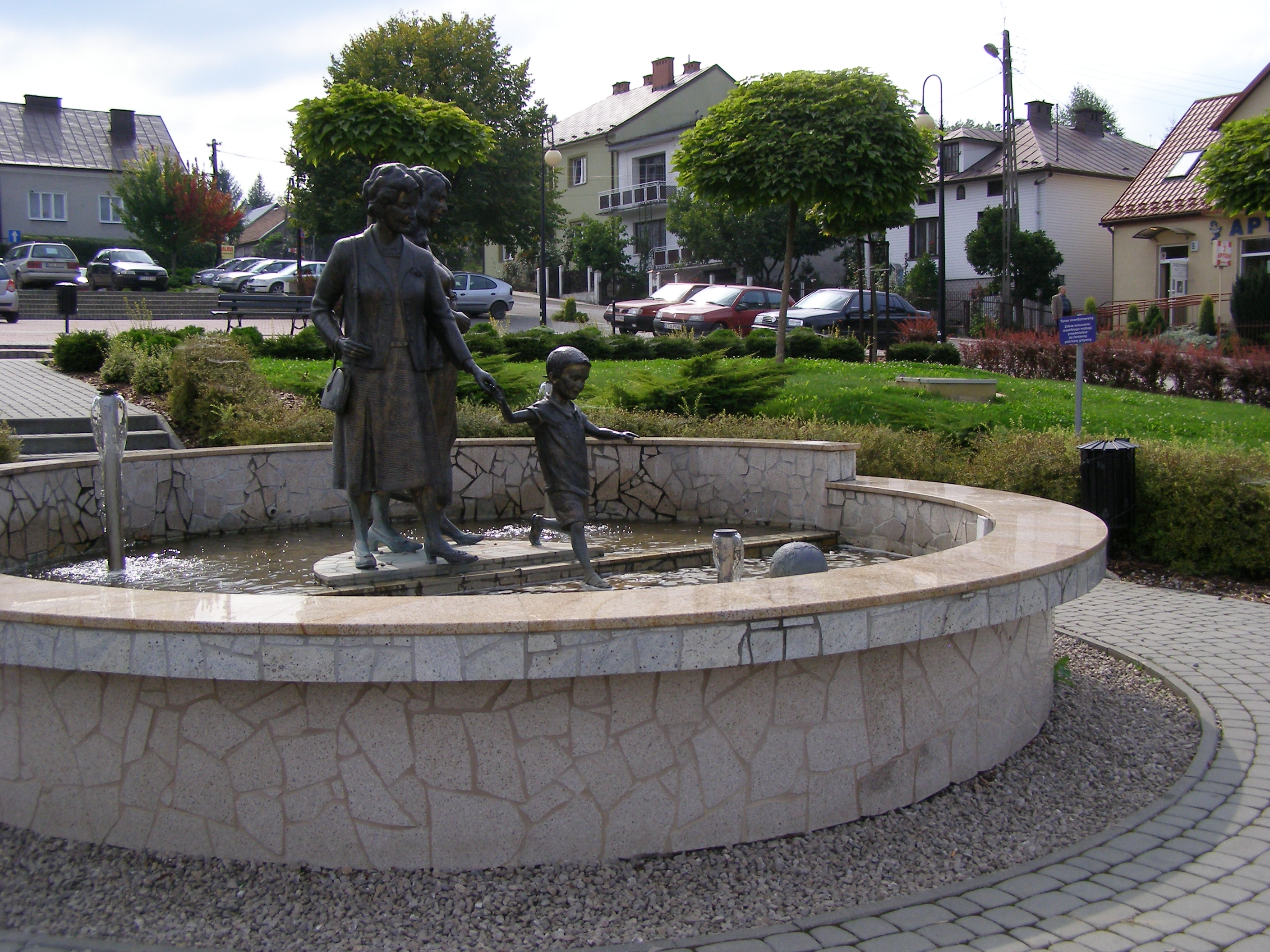 Ryglice - fountain in the Market Square